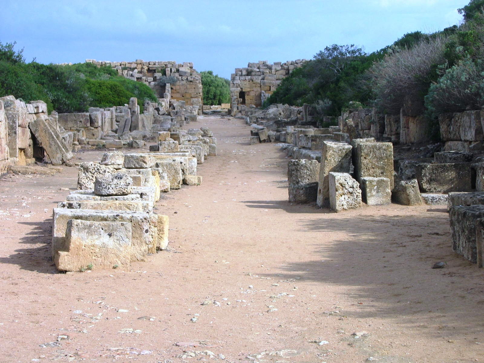 city-wall park in Selinunte,Sicily